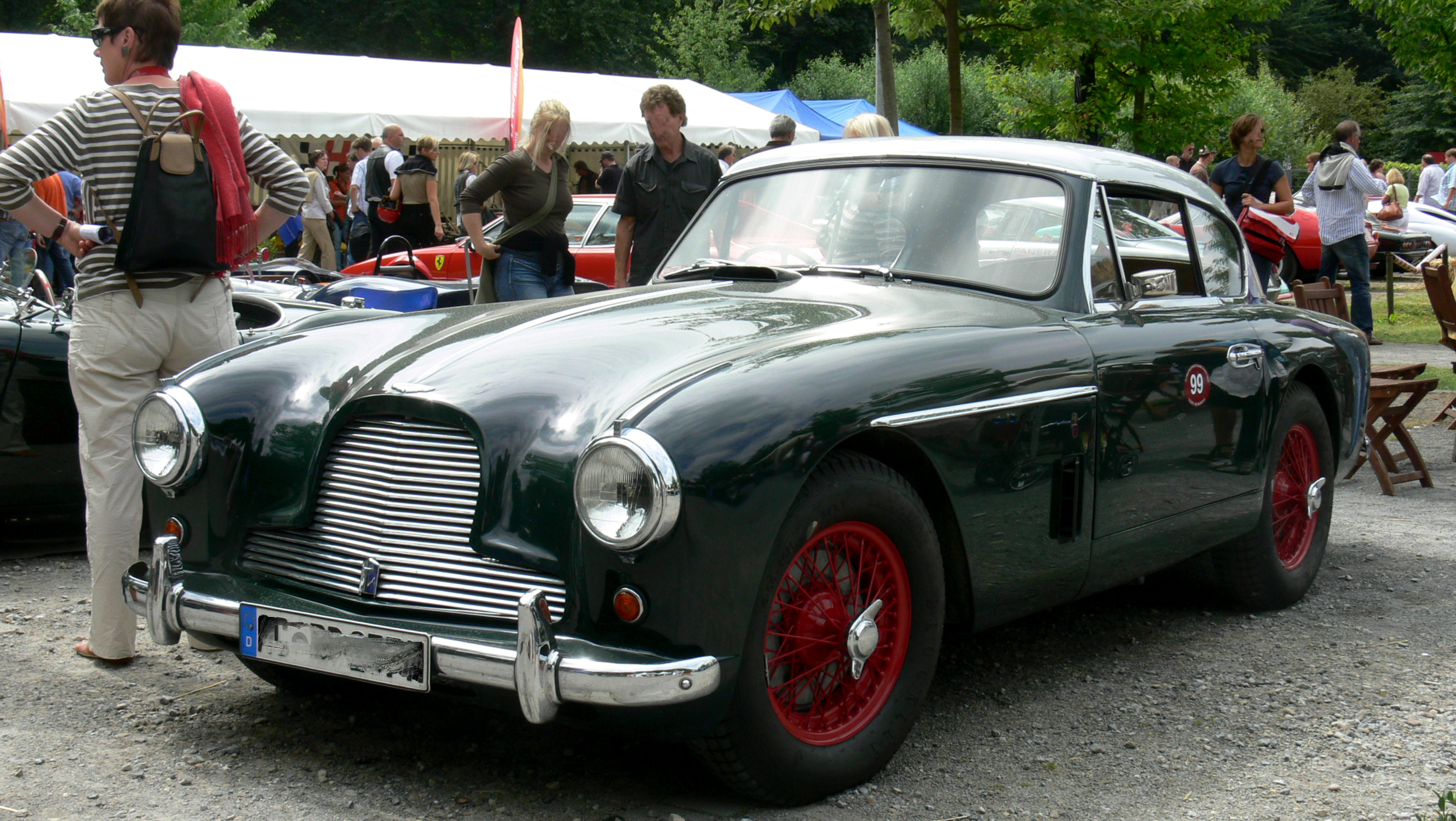 Aston Martin DB 2/4 Mark II (1957) at Dyck Castle, Germany